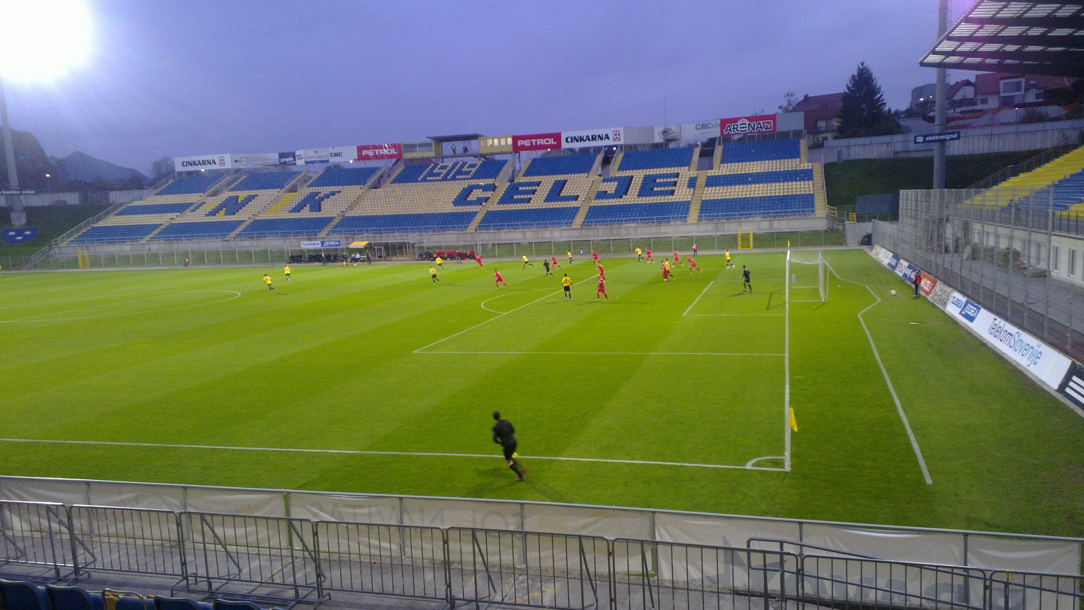 Arena Petrol stadium in Celje, Slovenia.